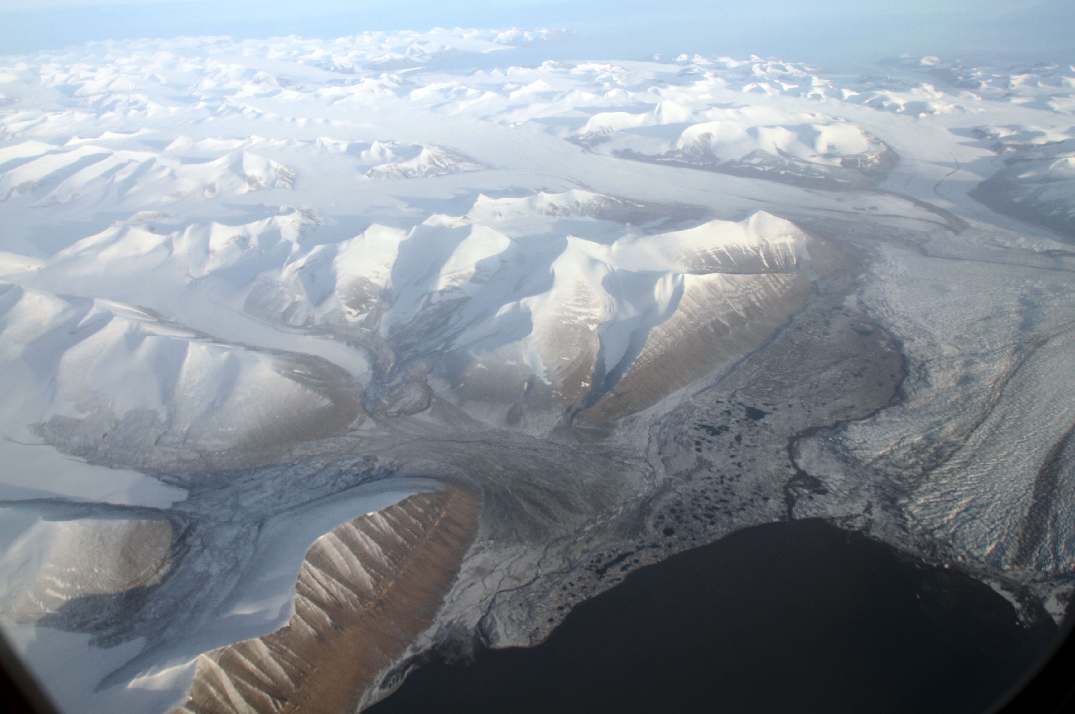 Aerial view of Nathorst Land, around the inner part of Van Keulenfjorden - eastern Spitsbergen, Norway.